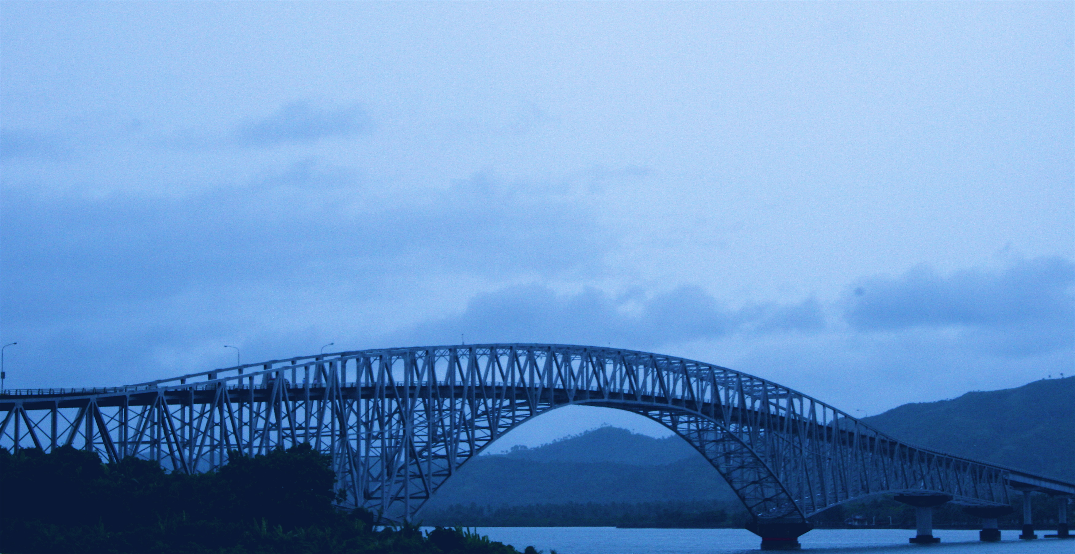 So drown me and if you can Or we could just have conversation. And I fall, I fall, I falter But I'll find you before I drift away Now you still speak of day old hate Though your whole world has gone up into flames And isn't it great to find that you're really worth nothing And how safe it is to feel safe. - "Day Old Hate", City and Colour